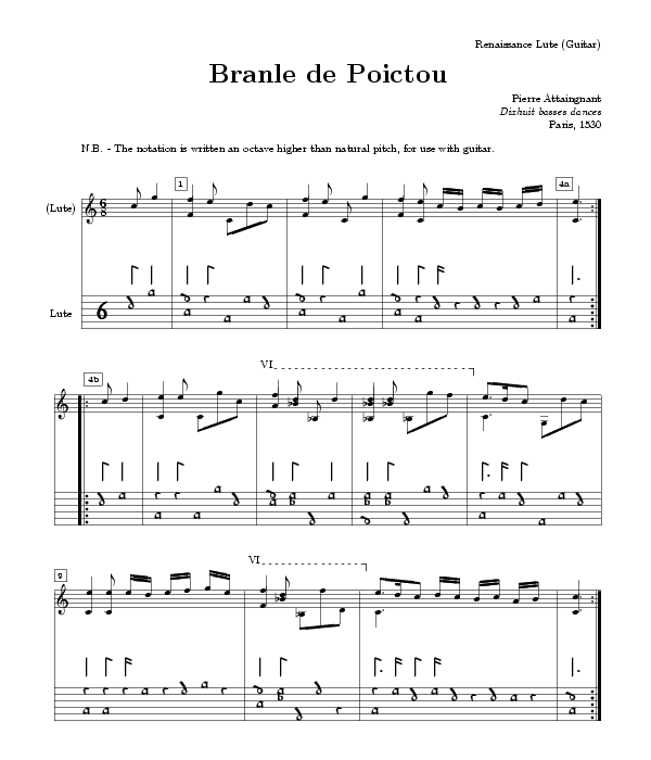 Renaissance French lute tablature (and corresponding guitar notation) for Attaingnant's "Branle de Poictou". Typeset by B.Bryant using MusiXTeX and the fonts from Wayne Cripps' freely available Tab program. The piece is based on a photocopy of a setting apparently done with the Tab program, but of unknown origin. The ultimate source of the piece is the manuscript indicated in the image. The transcription to notation was done by B.Bryant. Image copyright 2002, Bobby D. Bryant. Permission is granted to copy, distribute and/or modify under the GFDL, version 1.2 any later version published by the Free Software Foundation; with no Invariant Sections, with no Front-Cover Texts, and with no Back-Cover Texts.